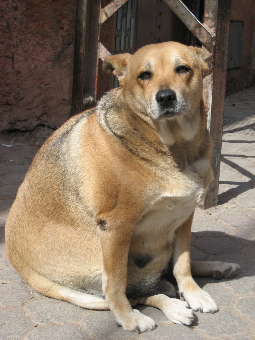 The tubbiest dog ever. Morocco.